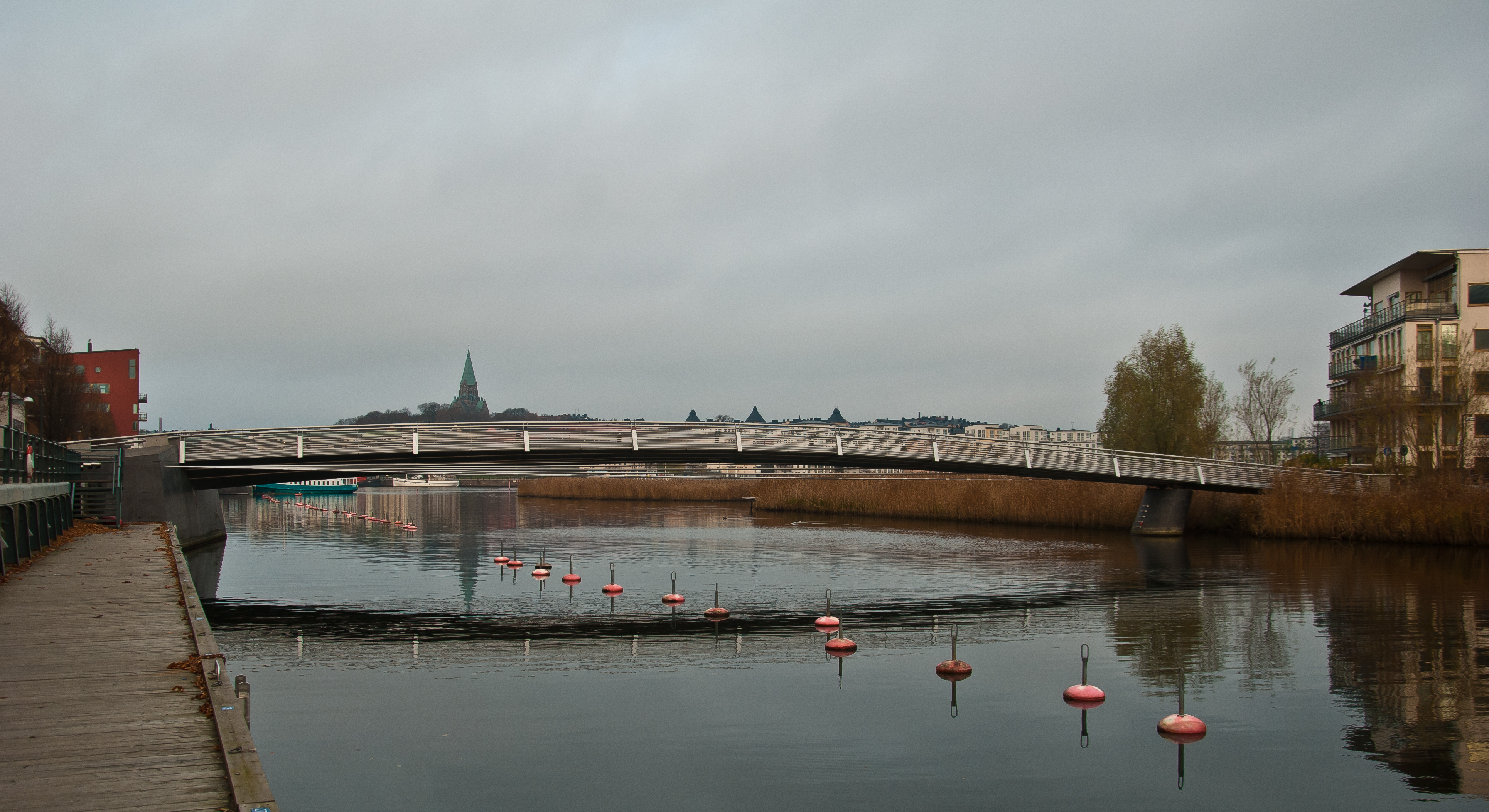 Sicklauddsbron, a pedestrian and cycle bridge, in Hammarby Sjöstad, Stockholm.